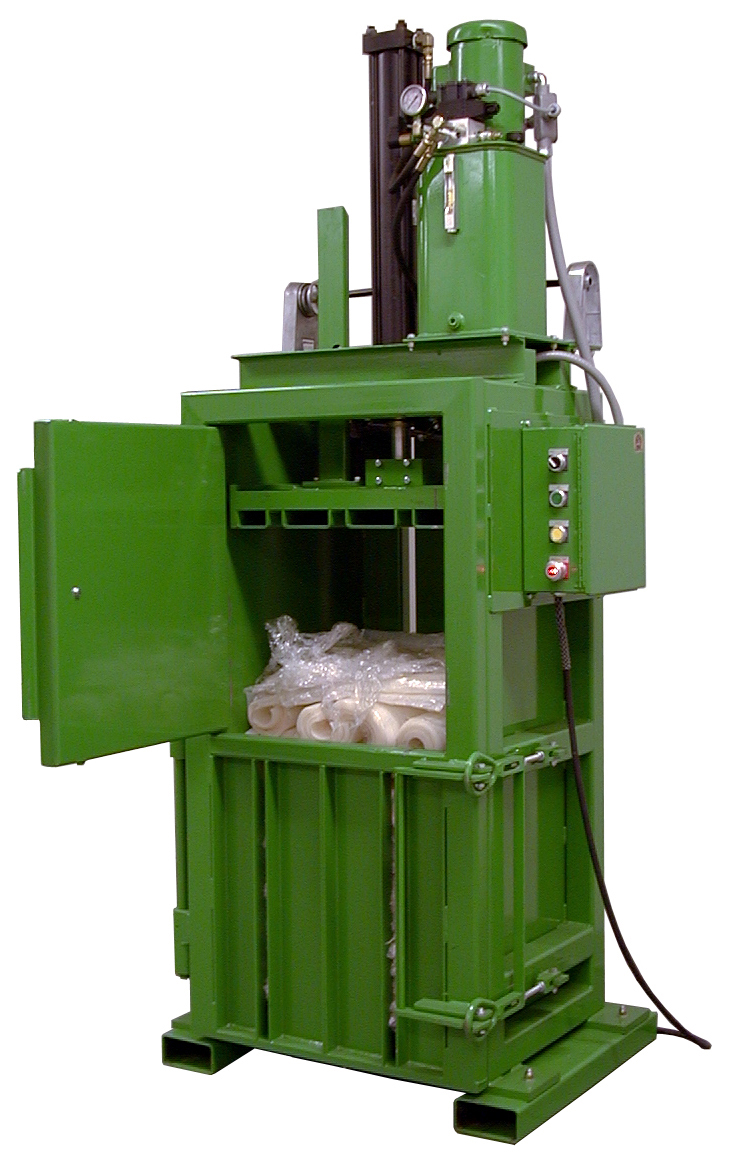 A specialized baler designed to compact stretch wrap, the Poly Packer made by Highlight Industries.